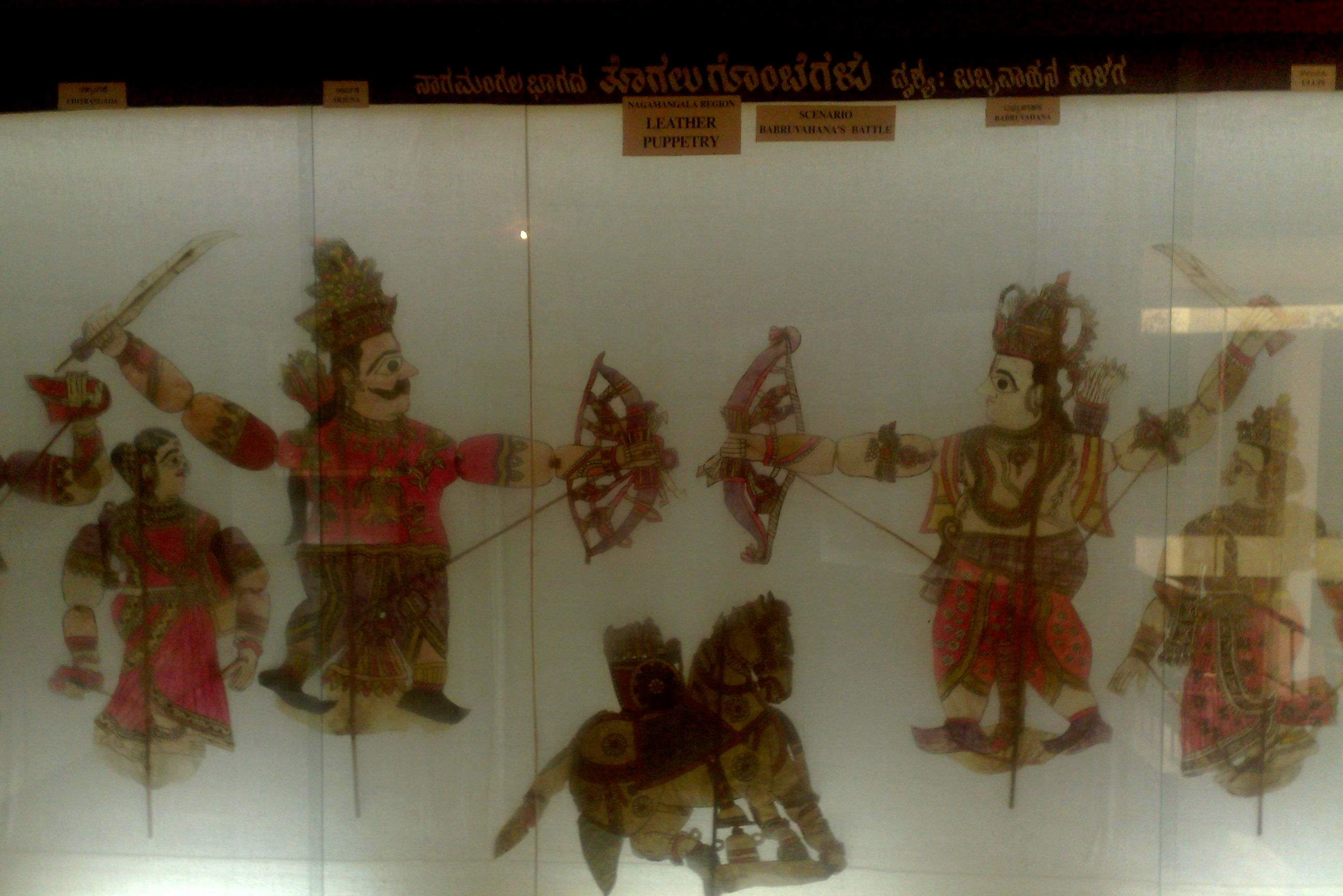 Leather puppets used in the Togalu Gombeyaata demonstration in the state of Karnataka, India